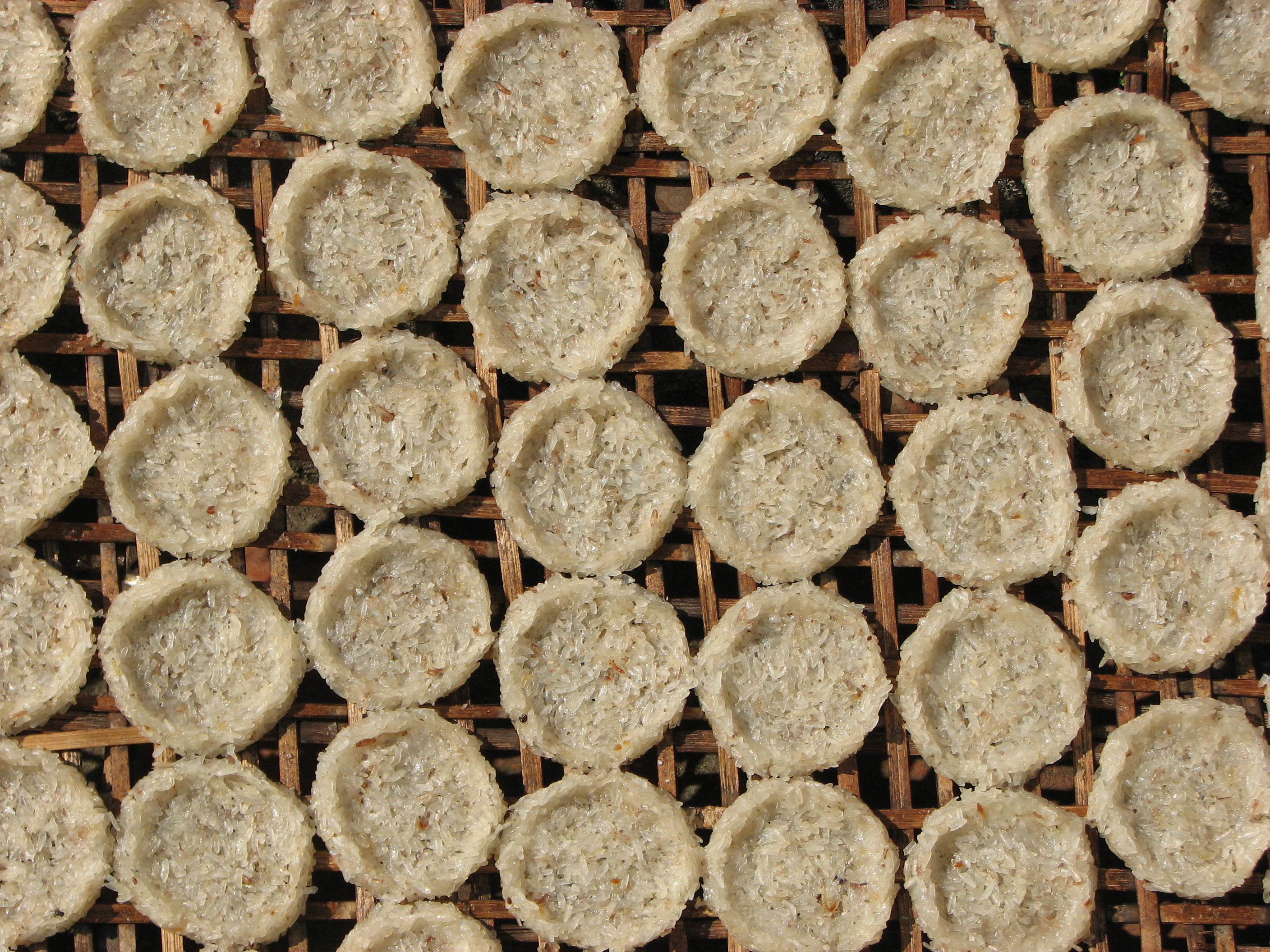 Traditional Laotian sticky rice cakes being dried in the sun, Luang Prabang.